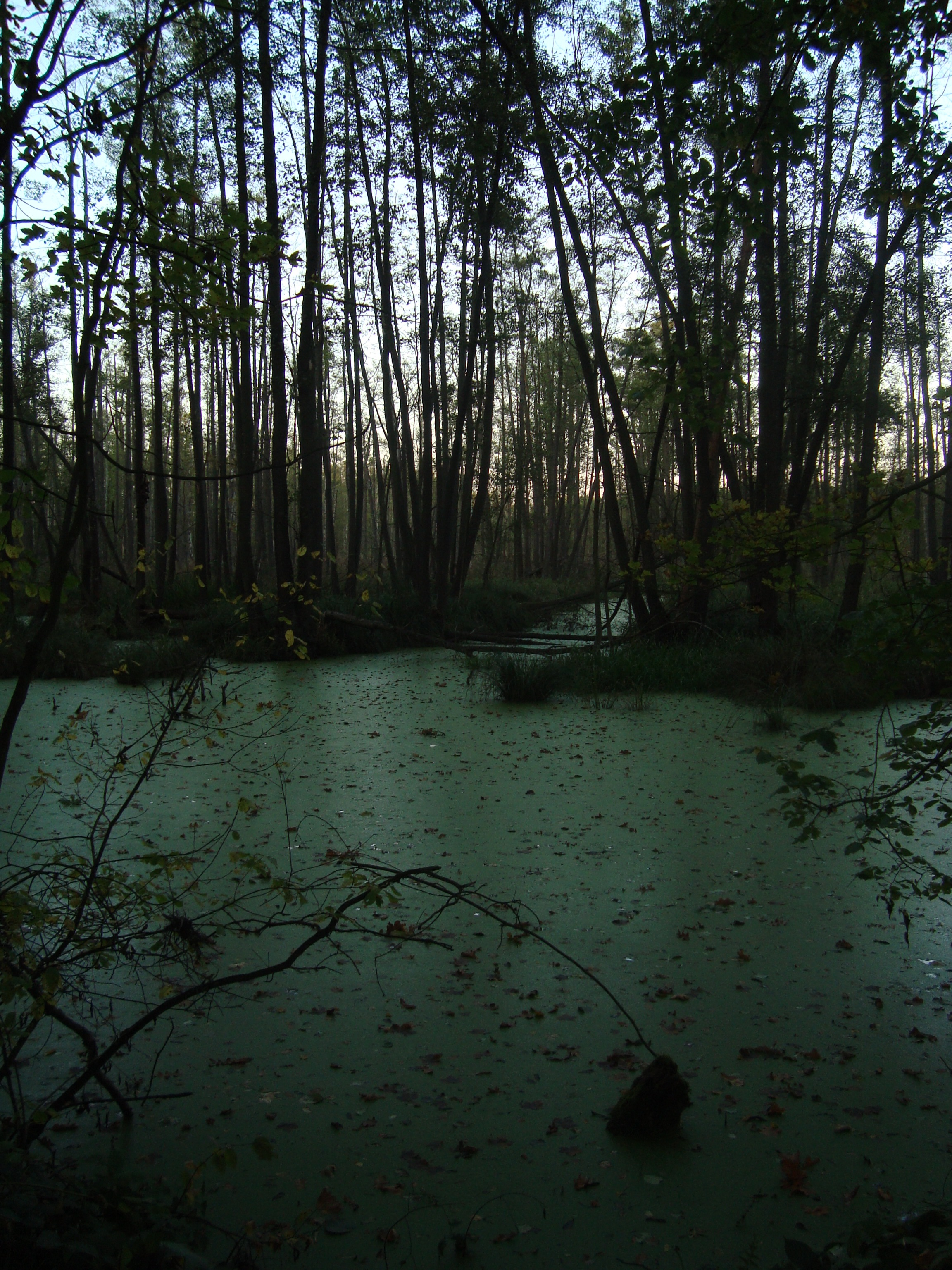 Olszyny Niezgodzkie Reserve